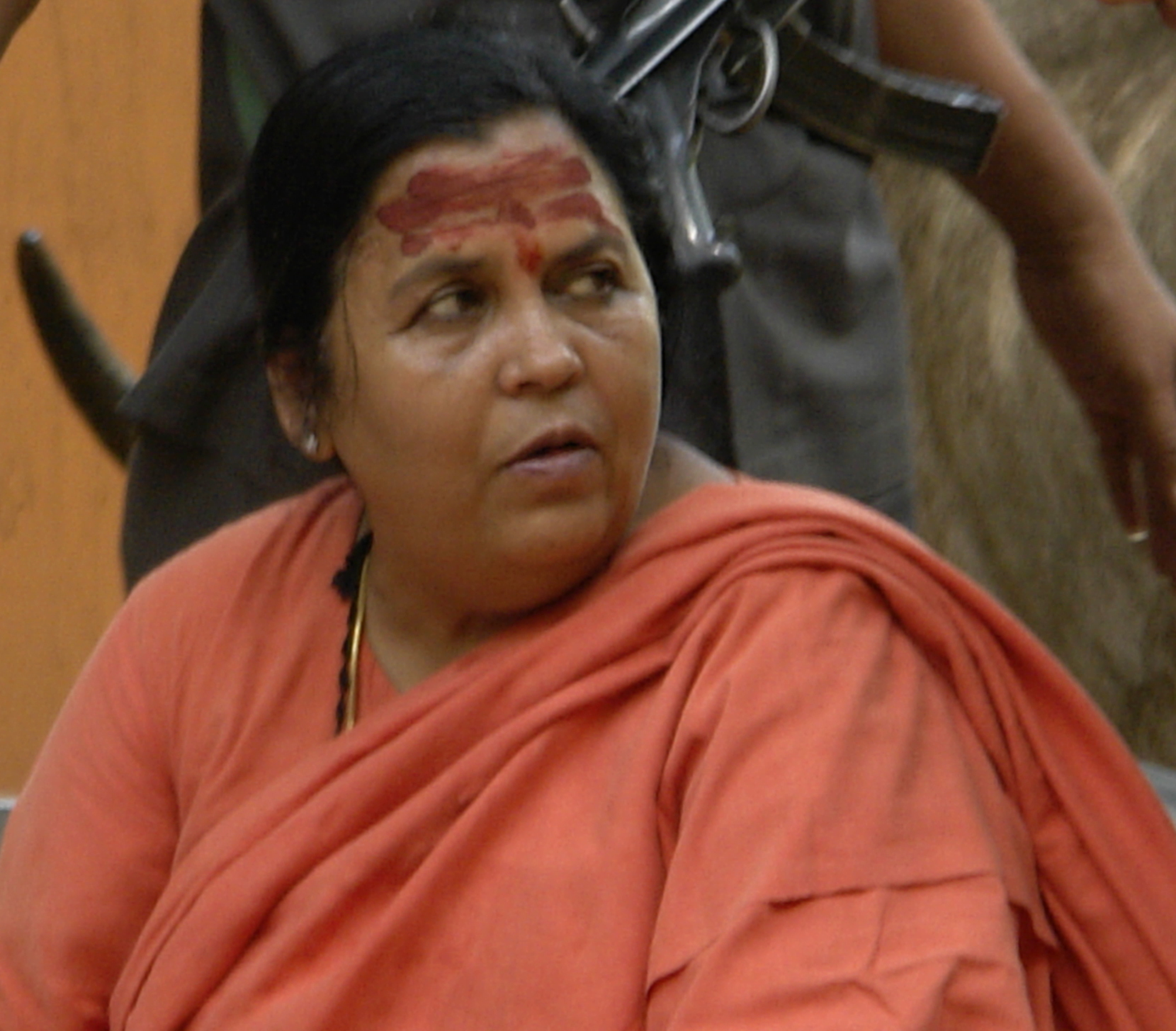 Uma Bharti, Indian politician. Pachmarhi, Madhya Pradesh, India.